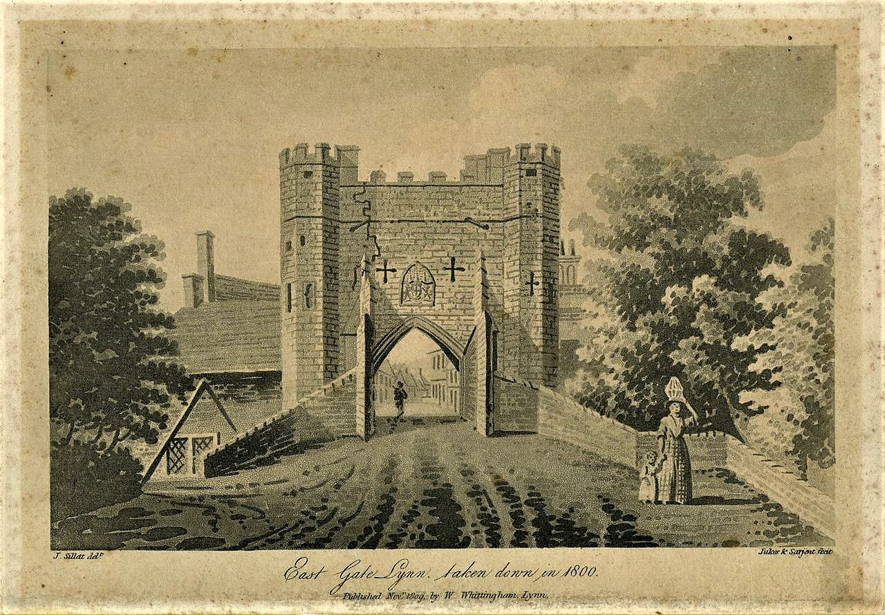 Print, 'East Gate Lynn. taken down in 1800' by James Sillett (1764-1840), aquatint on paper, 1809; in plate bottom left 'J. Sillett del.t'; in plate bottom right 'Jukes [ampersand] Sarjent fecit'; in plate bottom centre 'East Gate Lynn. taken down in 1800. / Published Nov.r 1809, by W. Whittingham, Lynn.'